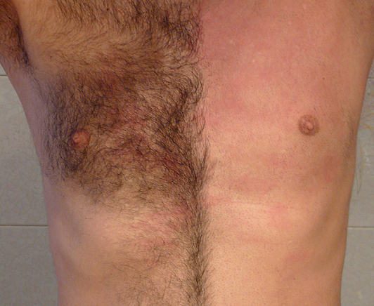 A comparison photo of a males chest waxing